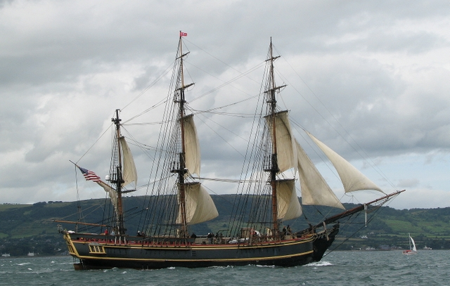 'Bounty', Tall Ships Belfast 2009, near to Newtownabbey, Ireland. Tall ship 'Bounty' in Belfast Lough as part of the 'Parade of Sail' to mark the end of the Tall Ships event in Belfast. The 'Bounty' was built in 1960 specially for the film 'Mutiny on the Bounty' but has also appeared in the 'Pirates of the Caribbean' films. She is, however, a full working ship and has sailed all over the world.